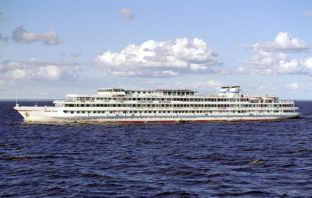 Georgiy Zhukov Project 92-016 Volgo-Balt 2001